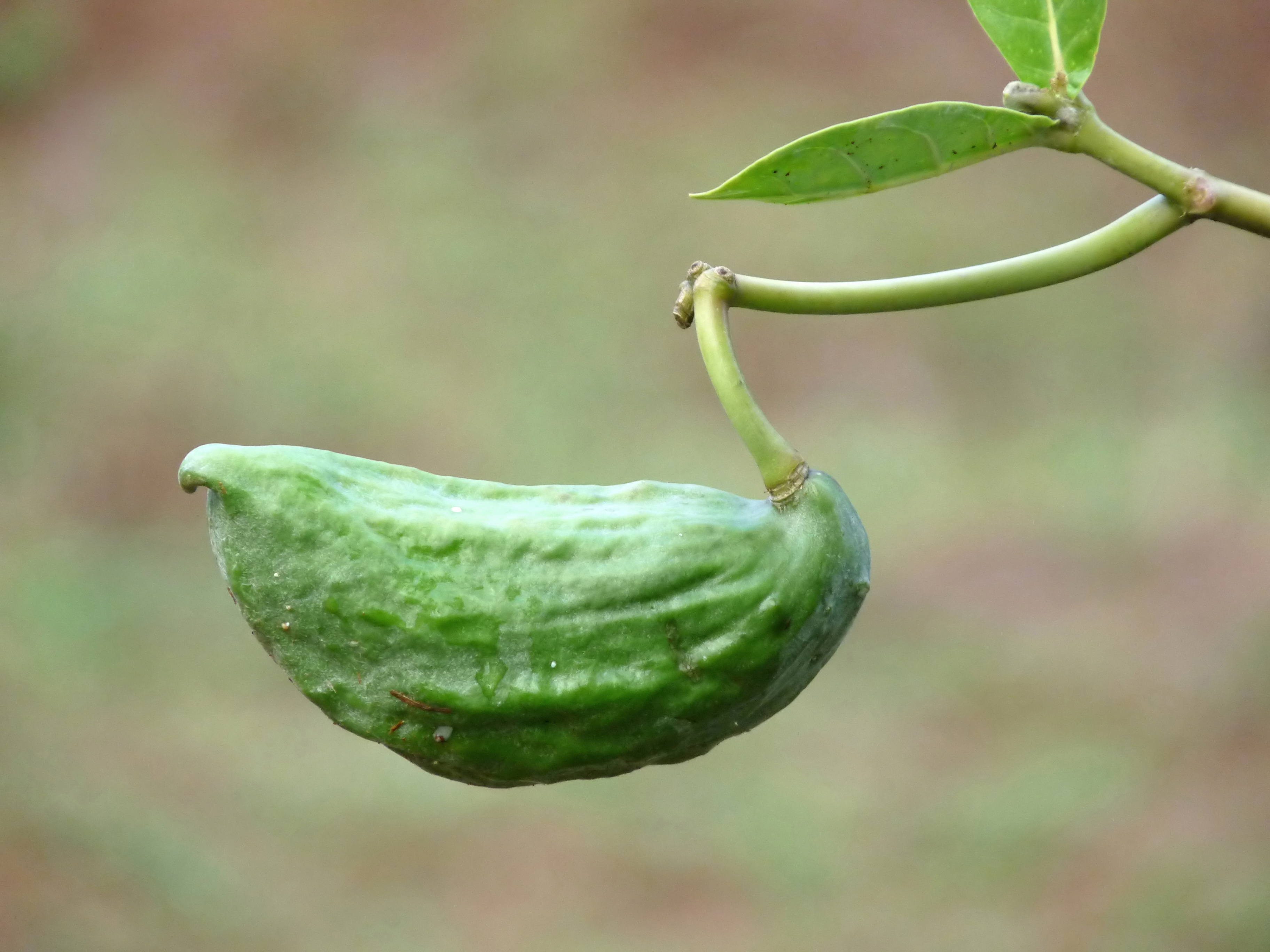 Calotropis gigantea (Crown flower) is a species of Calotropis native to Cambodia, Indonesia, Malaysia, Philippines, Thailand, Sri Lanka, India and China. It is a large shrub growing to 4 m tall. It has clusters of waxy flowers that are either white or lavender in colour. Each flower consists of five pointed petals and a small, elegant "crown" rising from the centre, which holds the stamens. The plant has oval, light green leaves and milky stem. The latex of Calotropis gigantea contains cardio glycosides, volatile fatty acids and calcium oxalate. The fruit is a follicle and when dry, seed dispersal is by wind. The seeds with a parachute of hairs, is a delight for small children, who like to blow it and watch it float in the air. This plant plays host to a variety of insects and butterflies.